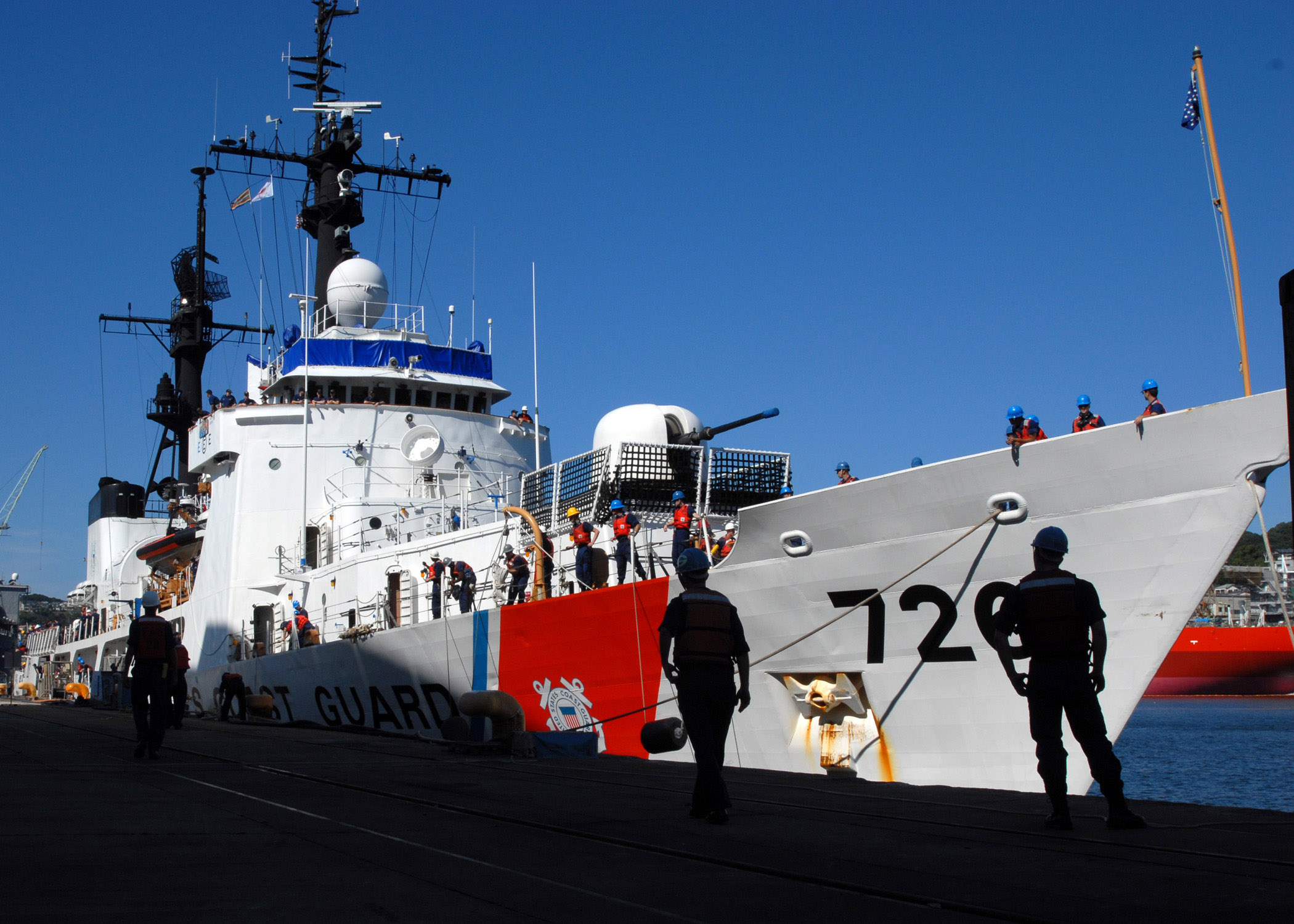 SASEBO, Japan (Oct. 3, 2007) - Line handlers from amphibious assault ship USS Essex (LHD 2) moor the U.S. Coast Guard high-endurance cutter USCGC Midgett (WHEC 726) at Fleet Activities Sasebo. Midgett is on extended law enforcement and fisheries protection patrol from the Coast Guards' 13th District and is homeported in Seattle. U.S. Navy photo by Mass Communication Specialist 2nd Class David Didier (RELEASED)